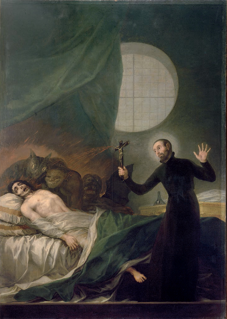 A painting by Goya, of Father General, Saint Francis Borgia, SJ performing an exorcism.